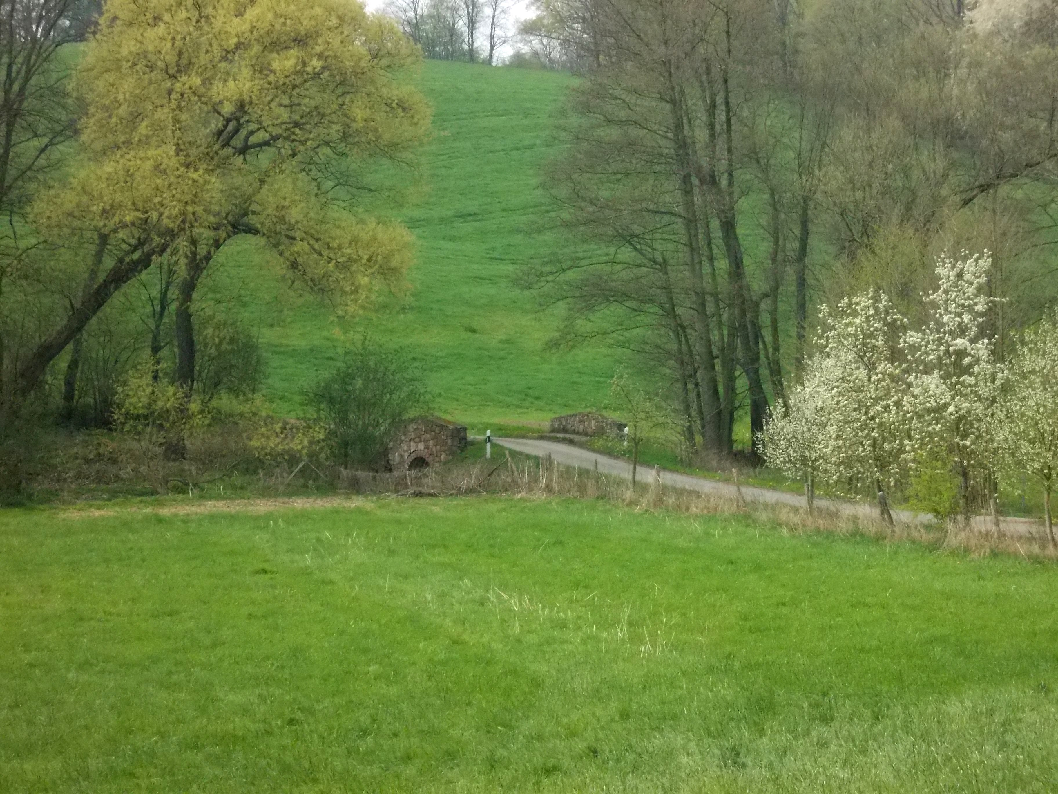 Schanzenbach valley (Leisnig, Mittelsachsen district, Saxony) near Leuthen Mill